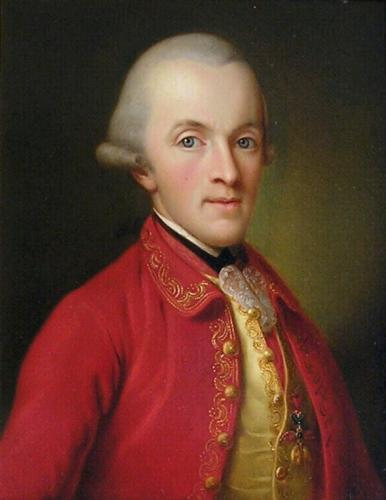 Anton I, prince Esterhazy